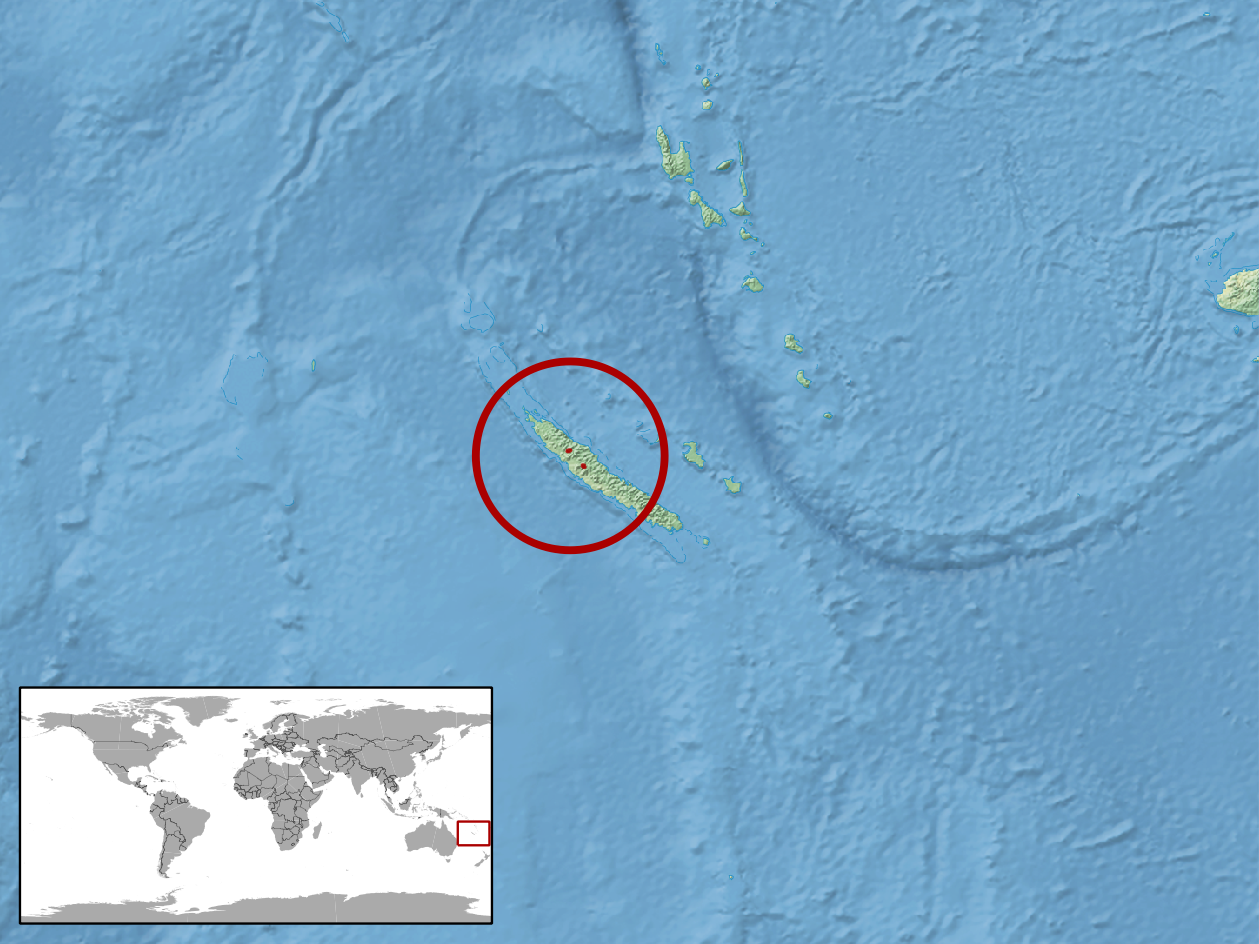 geographic distribution of Nannoscincus humectus